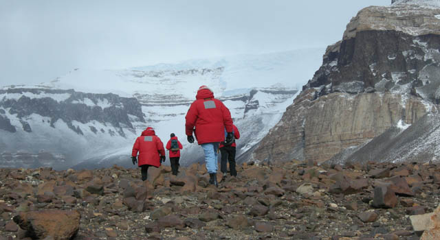 Antarctic Expedition Prepared Researchers for Mars Project. Four of the expedition members scout out field sites in Antarctica's Beacon Valley, one of the most Mars-like places on Earth. From left: Aaron Zent, of NASA Ames Research Center, Moffett Field, Calif.; Chris McKay, also of NASA Ames; Peter Smith, of the University of Arizona, Tucson; and Doug Ming, of NASA Johnson Space Center, Houston. Image credit: NASA